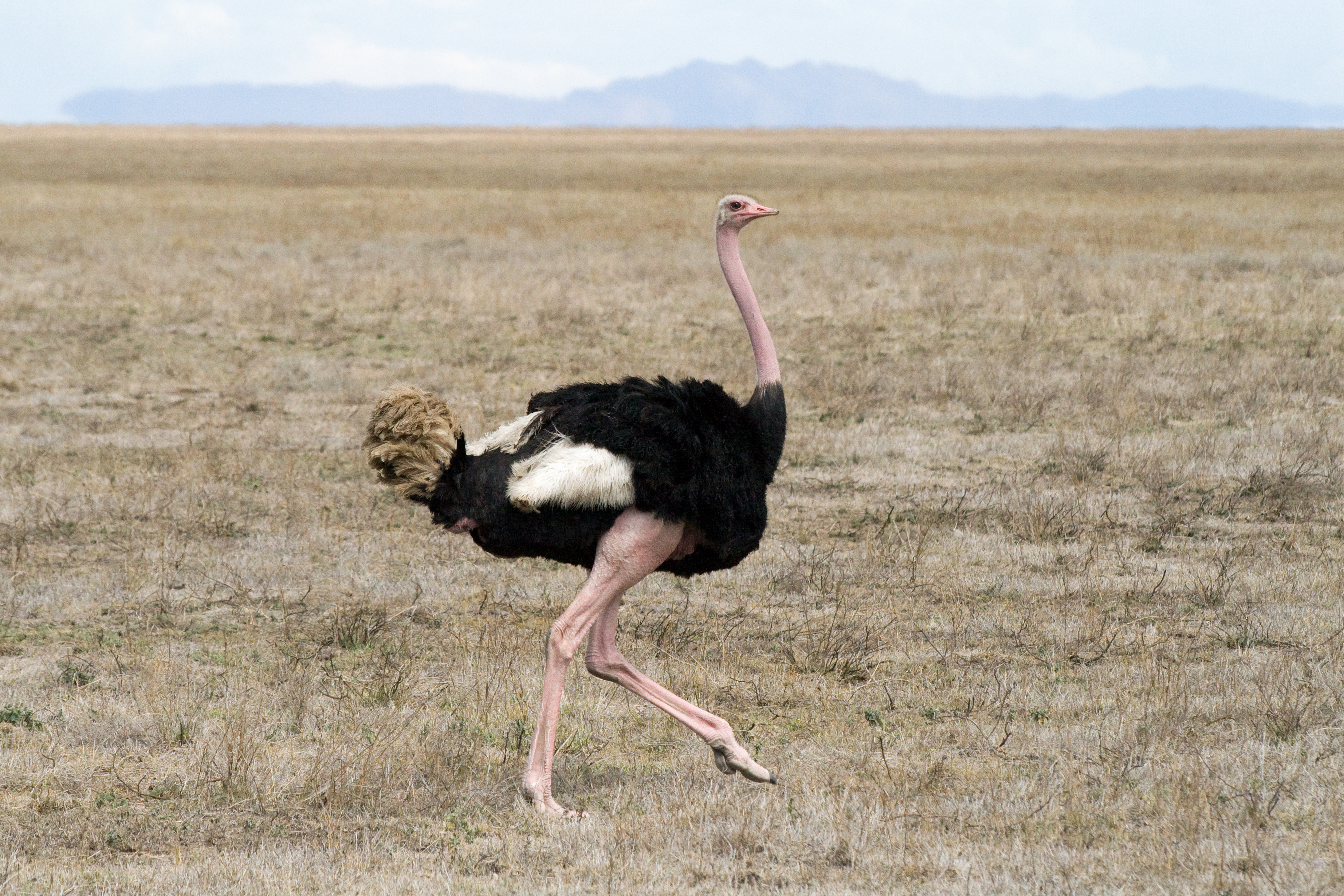 Ostrich, Serengeti National Park, Tanzania (This photo by mistake taken with IS0 1600 setting)